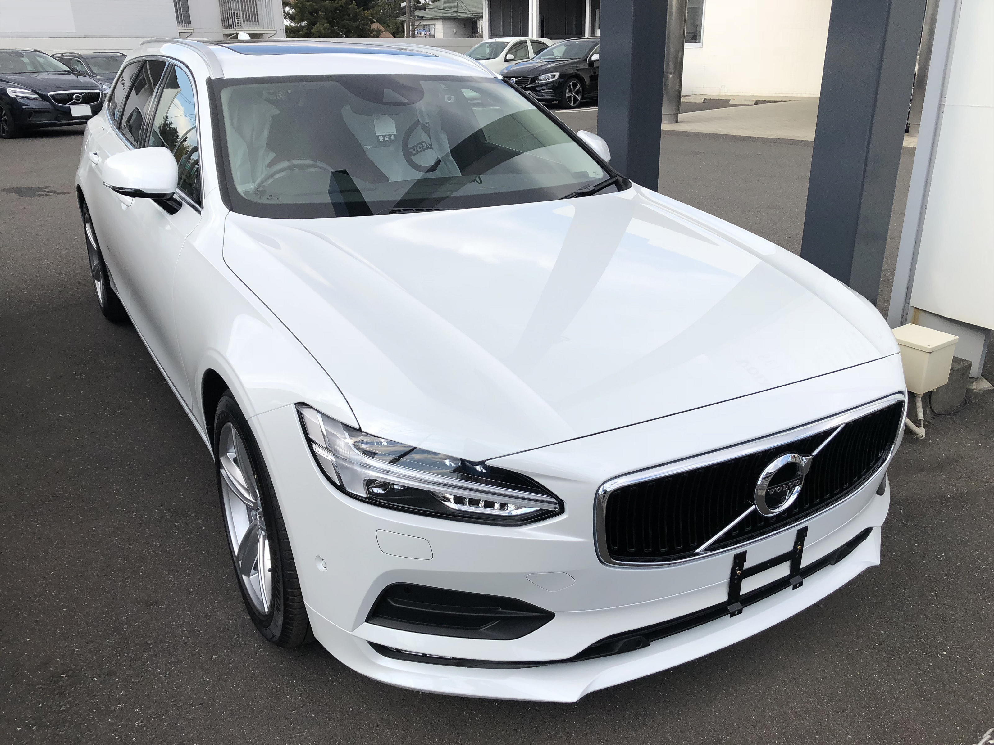 VOLVO V90 T5 FRONT(JPN).Photographed in Japan.